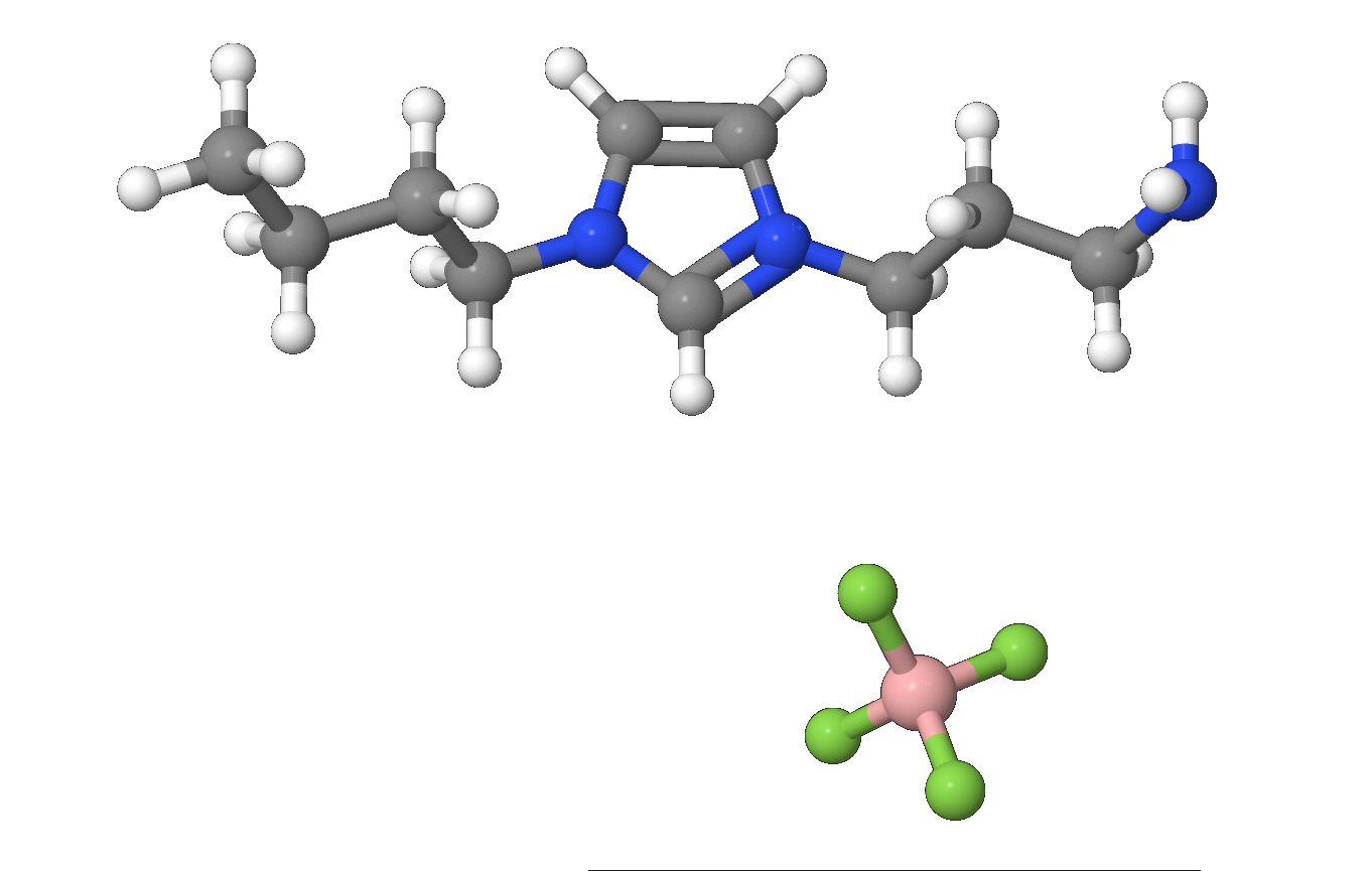 Ball-and-stick model of 1-butyl-3-propylamineimidazolium-tetrafluoroborate, an ionic liquid used in separations of CO2. Color code: Carbon, C: black Hydrogen, H: white Nitrogen, N: blue Yellow-green: Fluorine, F Boron, B: pink